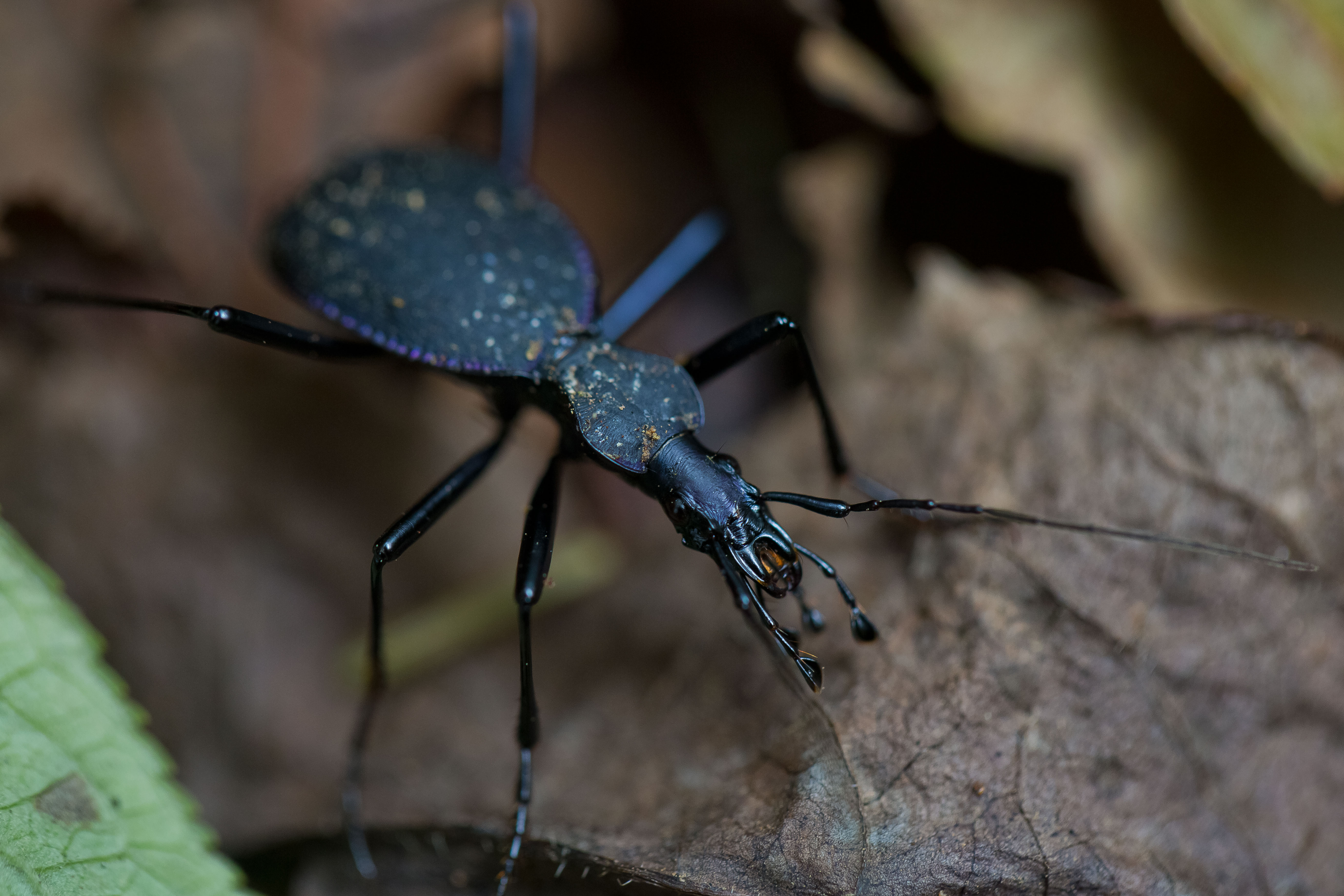 Ground beetle (Scaphinotus angusticollis) You are free to use this image with the following photo credit: Peter Pearsall/U.S. Fish and Wildlife Service